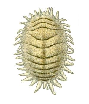 Citrus mealybug. Planococcus citri (Hemiptera: Pseudococcidae)